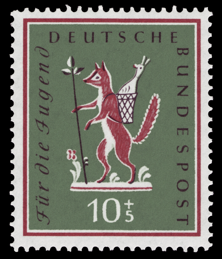 Social stamp for the youth, 1958, children's song, Fuchs du hast die Gans gestohlen Graphics by Göhlert Ausgabepreis: 10+5 Pfennig First Day of Issue / Erstausgabetag: 1. April 1958 Michel-Katalog-Nr: 286